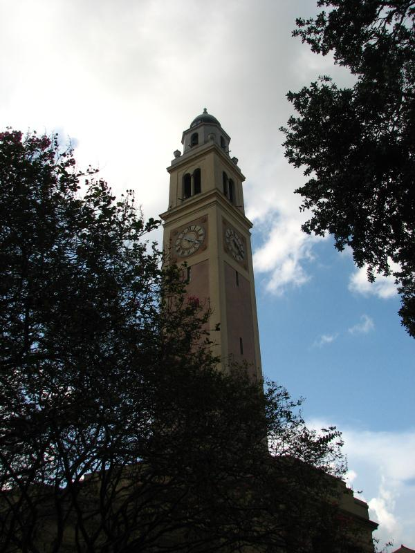 Memorial Tower of LSU, Baton Rouge